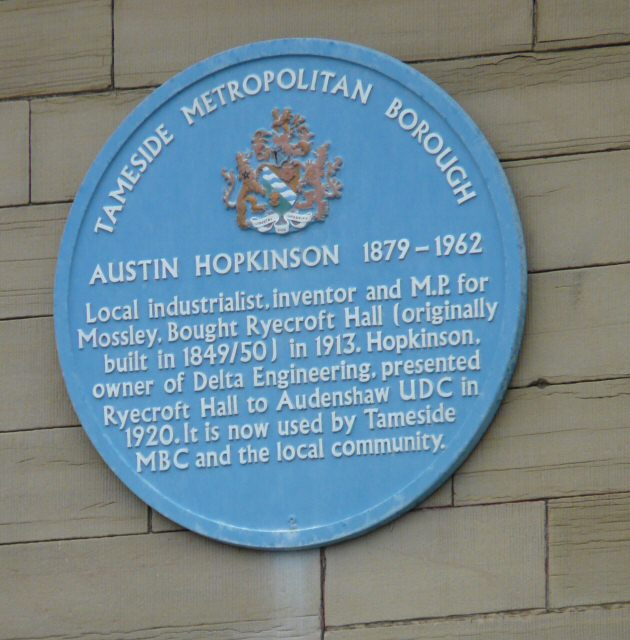 Austin Hopkinson (1879 - 1962). Blue plaque at Ryecroft Hall 1176906 commemorating the local industrialist and MP for Mossley.